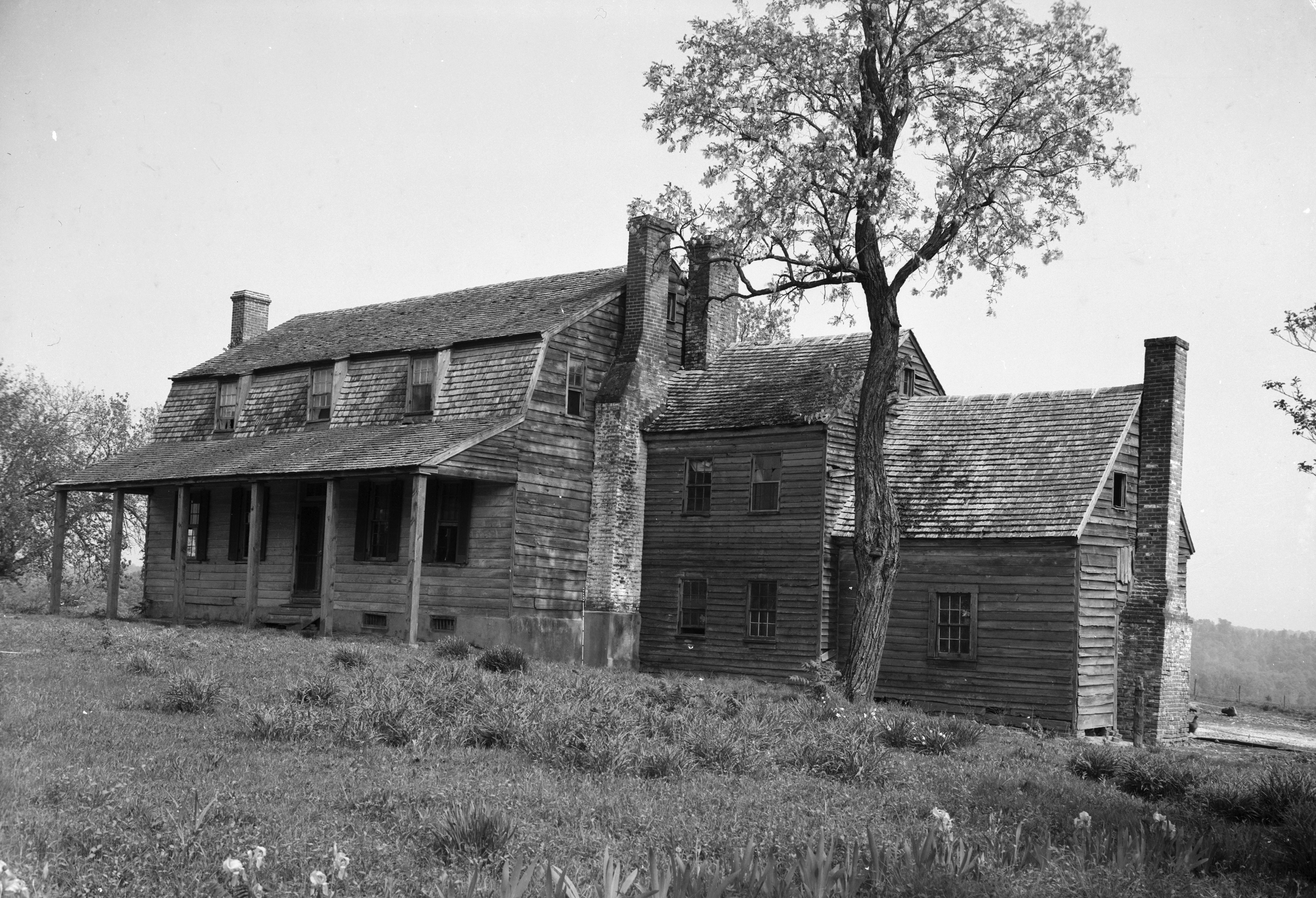 Wyoming, 330 Thrift Street (11530 Thrift Road), Clinton, Prince George's, MD, photographed May 1936